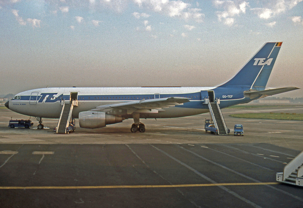 Airbus A300B1 OO-TEF of Trans European Airways at Brussels Airport in 1977